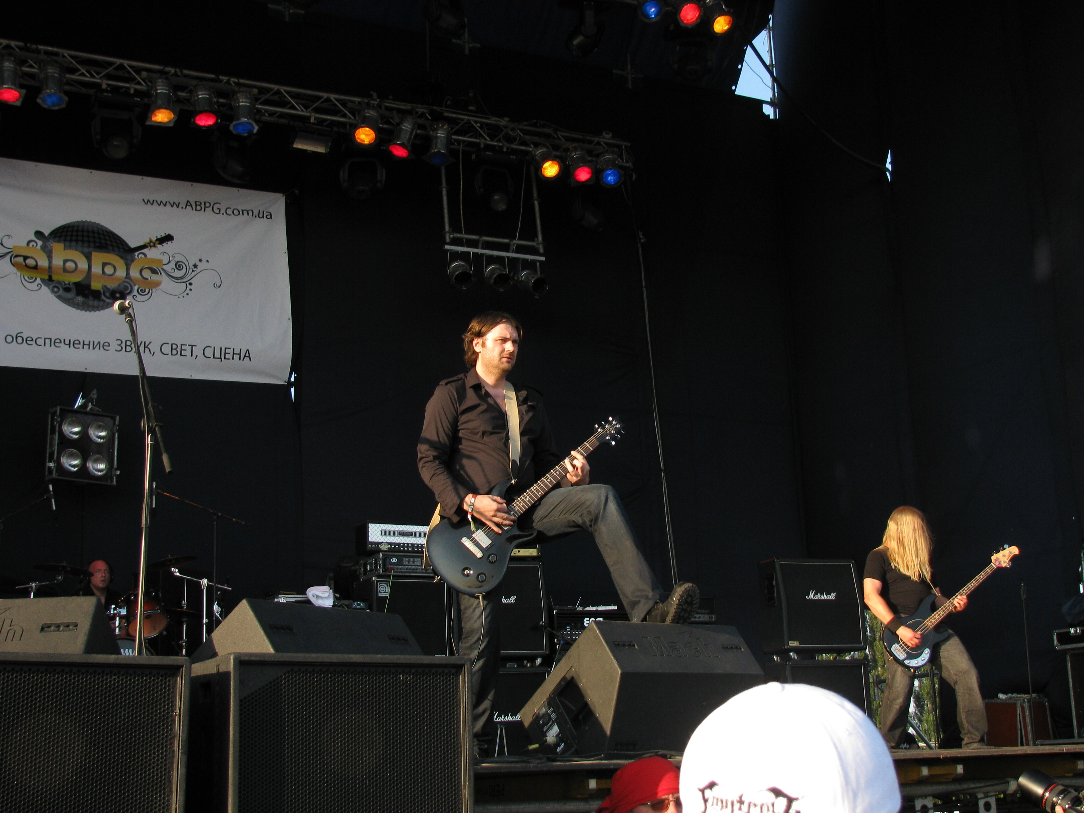 Lake of Tears on ProRock festival, Ukraine.